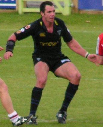 Adrian Morley